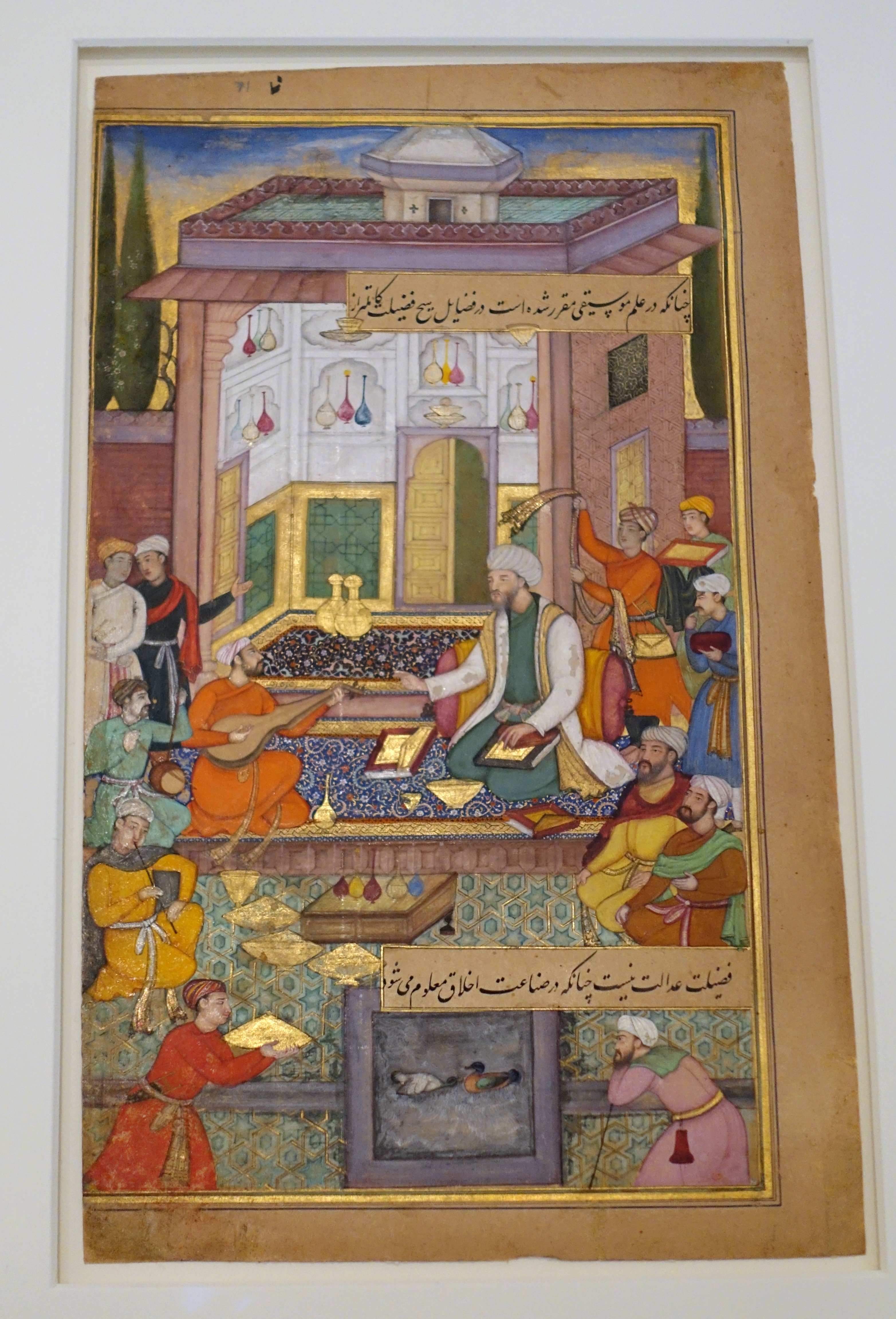 Exhibit in the Aga Khan Museum - Toronto, Canada. This work is old enough so that it is in the public domain.